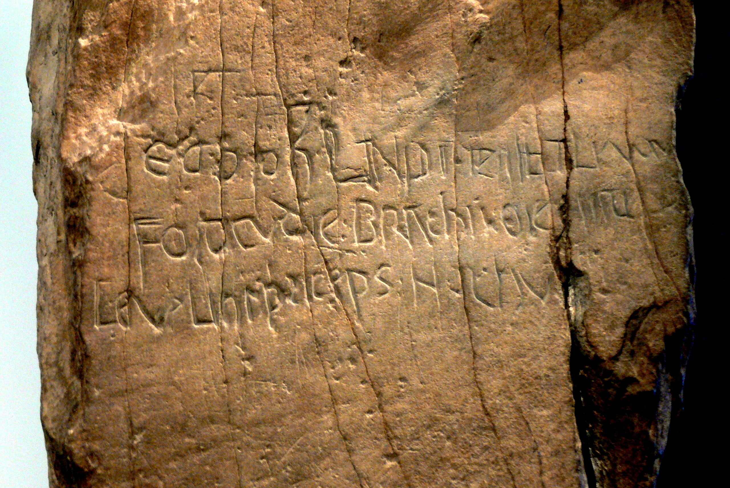 National Museum of Wales ( Cardiff ). Welsh-latin inscription ( 1198-1230 ) in honour of a gift by Llywelyn ab Iorwerth to the abbey of Aberconwy, found in Pentrefoelas: "Ed vidh LN DI env aLevone Fortitudine Brachii mesure Leveline princeps Northvallie" ( The name Levelin is from llew - lion, and from the might of elin - arm, o Levelinus, prince of north Wales ).